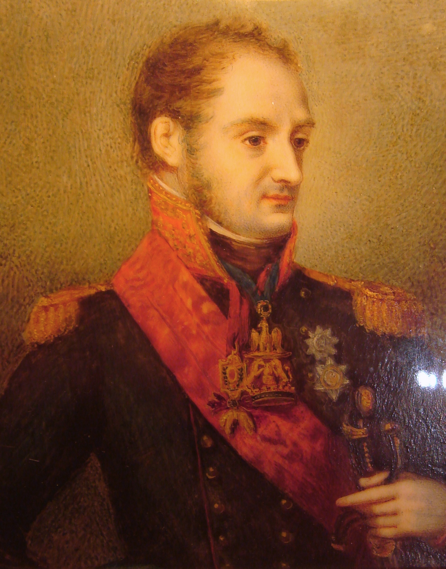 Early 19th century enamel with portrait of Jerome_Napoleon_Bonaparte